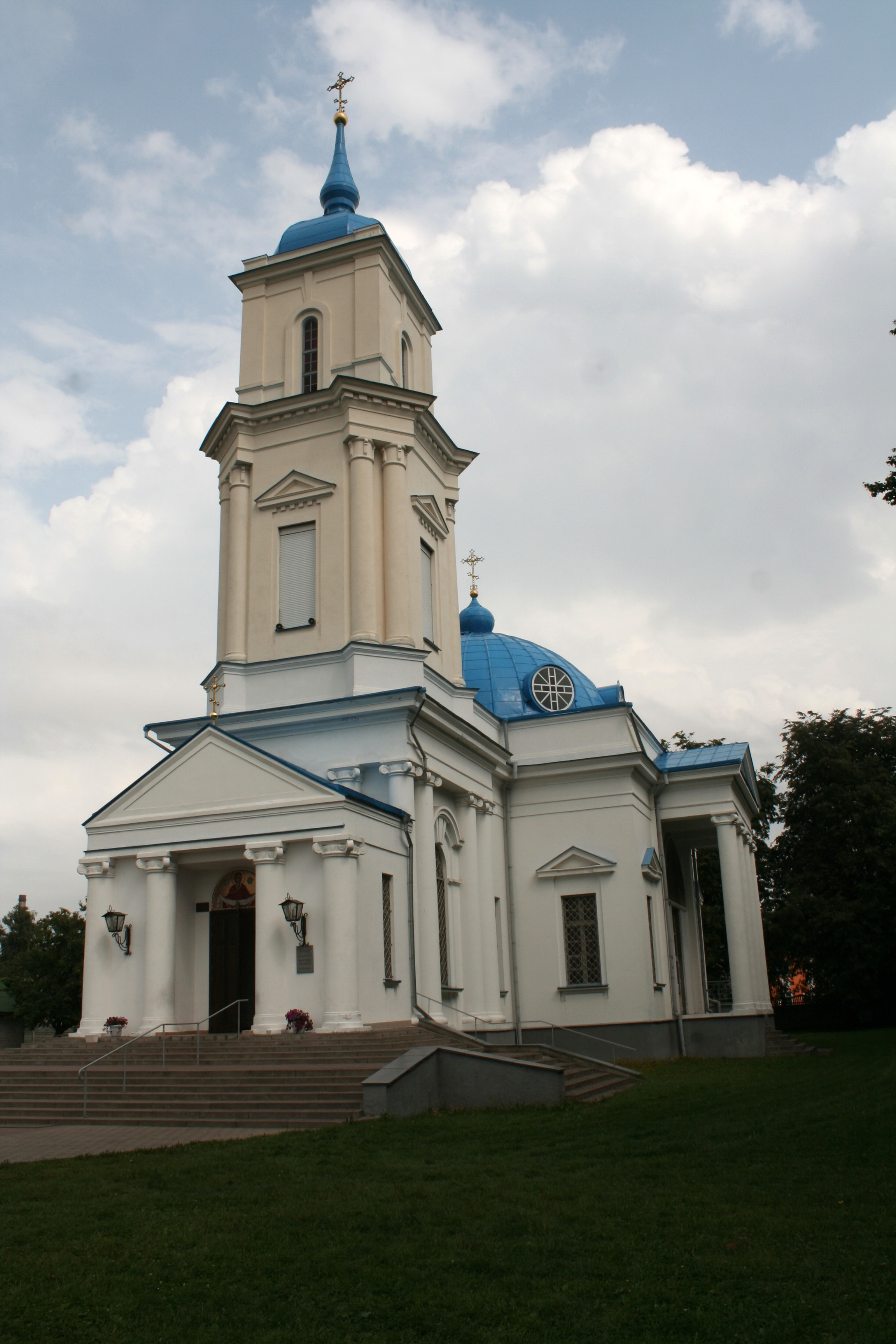 Orthodox church of the Protection of the Holy Virgin, Baranavičy This is a photo of Belarusian heritage monument. Reference number: 112Г000041 ( WLM)